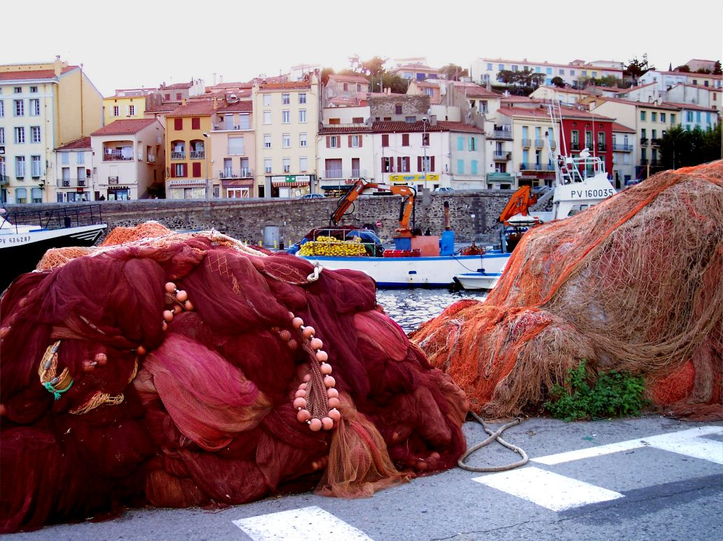 Harbour in Port Vendres - fishing nets